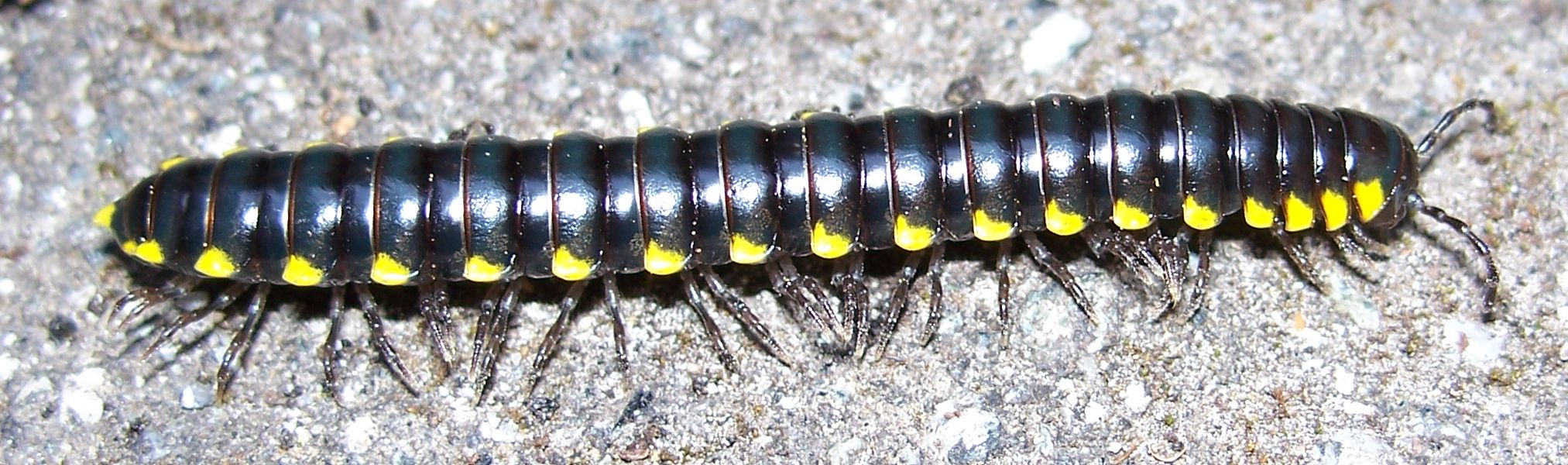 Yellow-spotted millipede